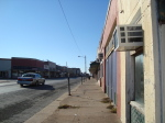 Downtown Marlin in March of 2009.